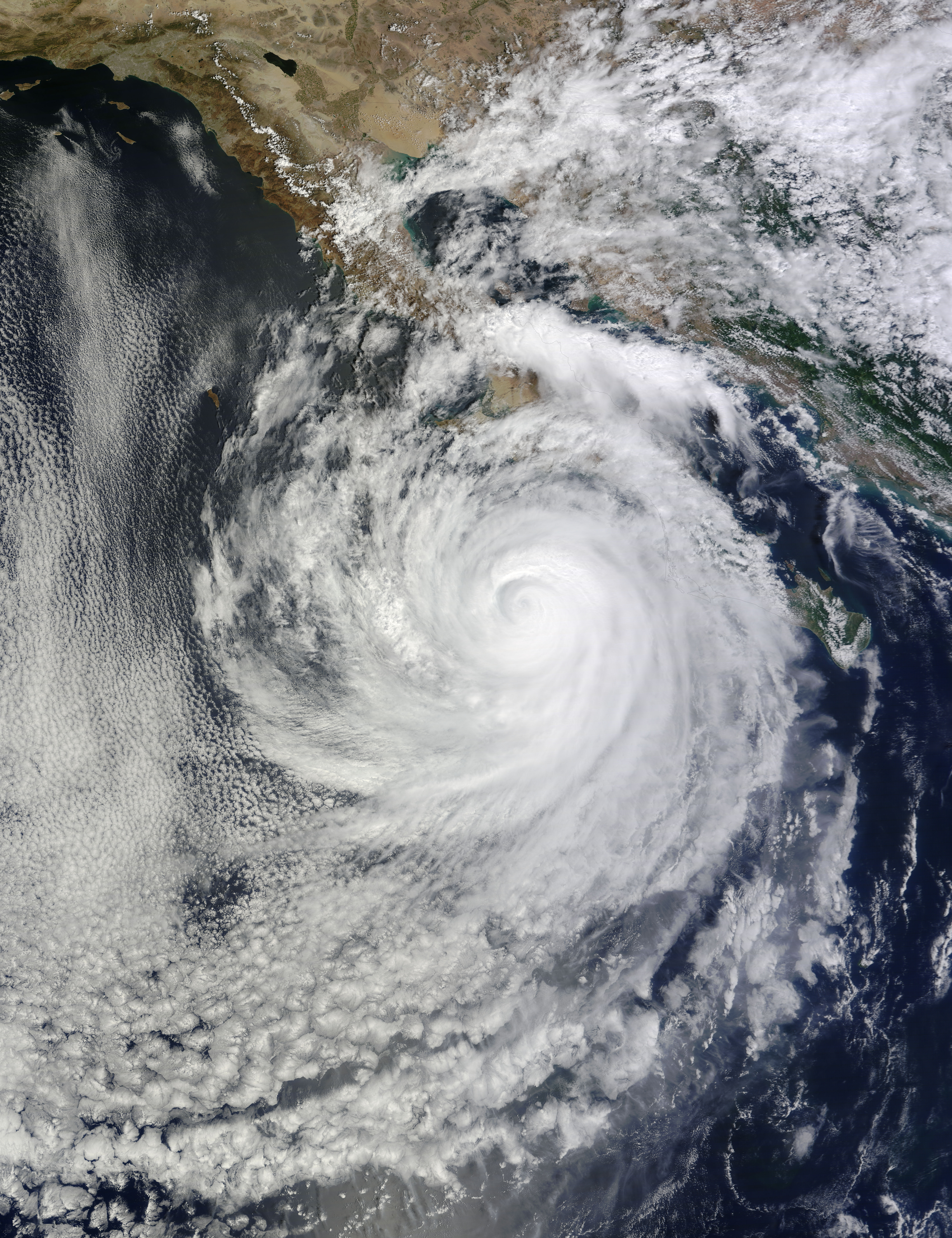 Hurricane Norbert (14E) over Baja California